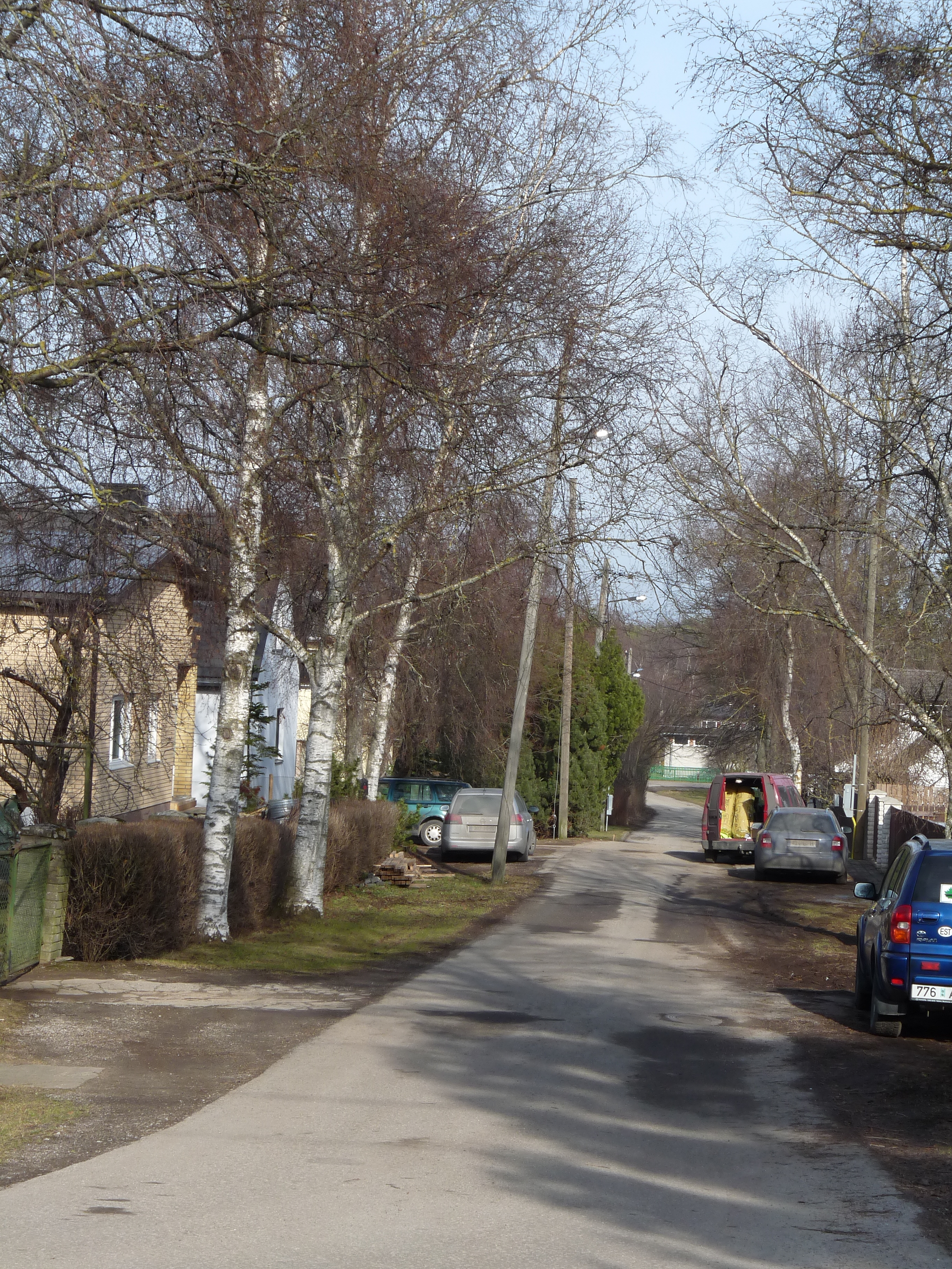 Mesika street in Tallinn, Estonia